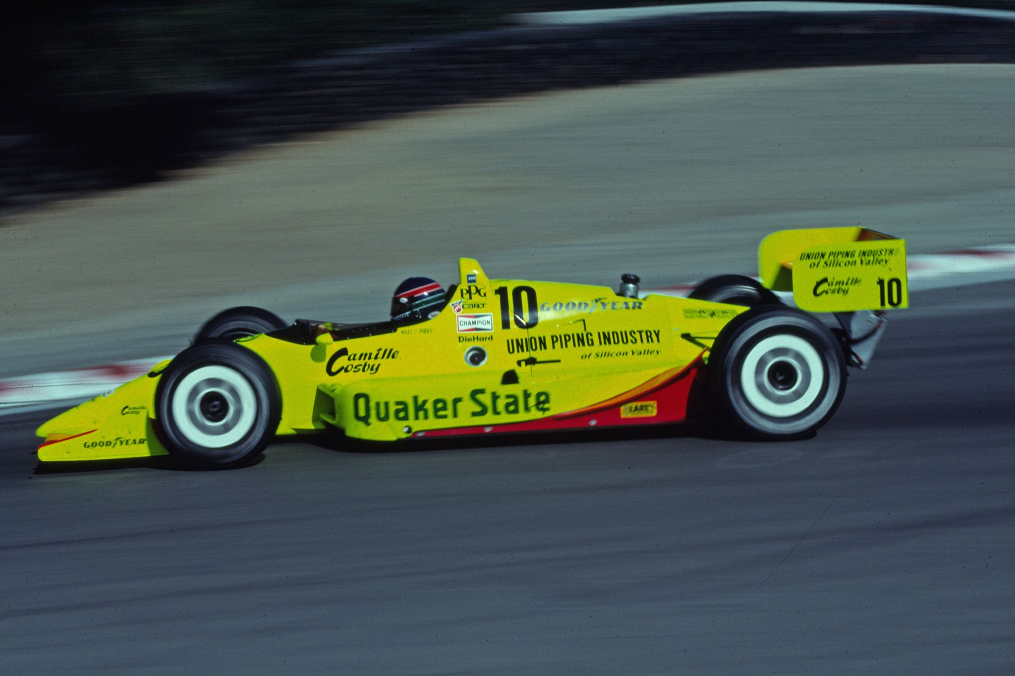 Willy T. Ribbs - 1991 CART Race - Laguna Seca - October 1991